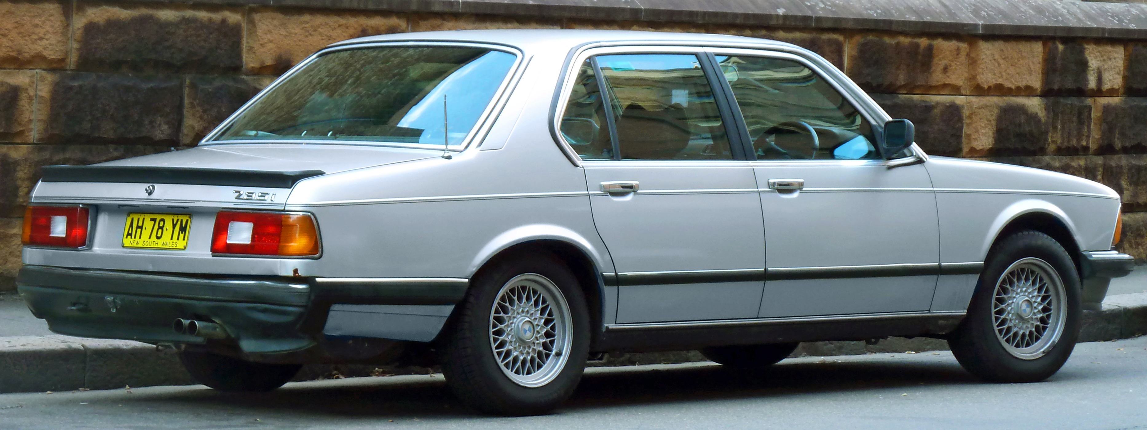 1985 BMW 735i (E23) sedan. Photographed in The Rocks, New South Wales, Australia.